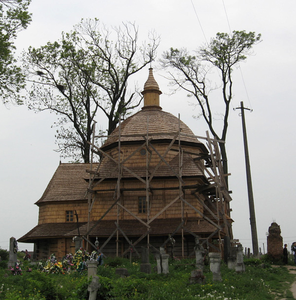 Church of Saint Paraskevi, 16th or 17th century, Belz; build without nails; during soviet times historical museum, then the museum of Greek Catholic collection